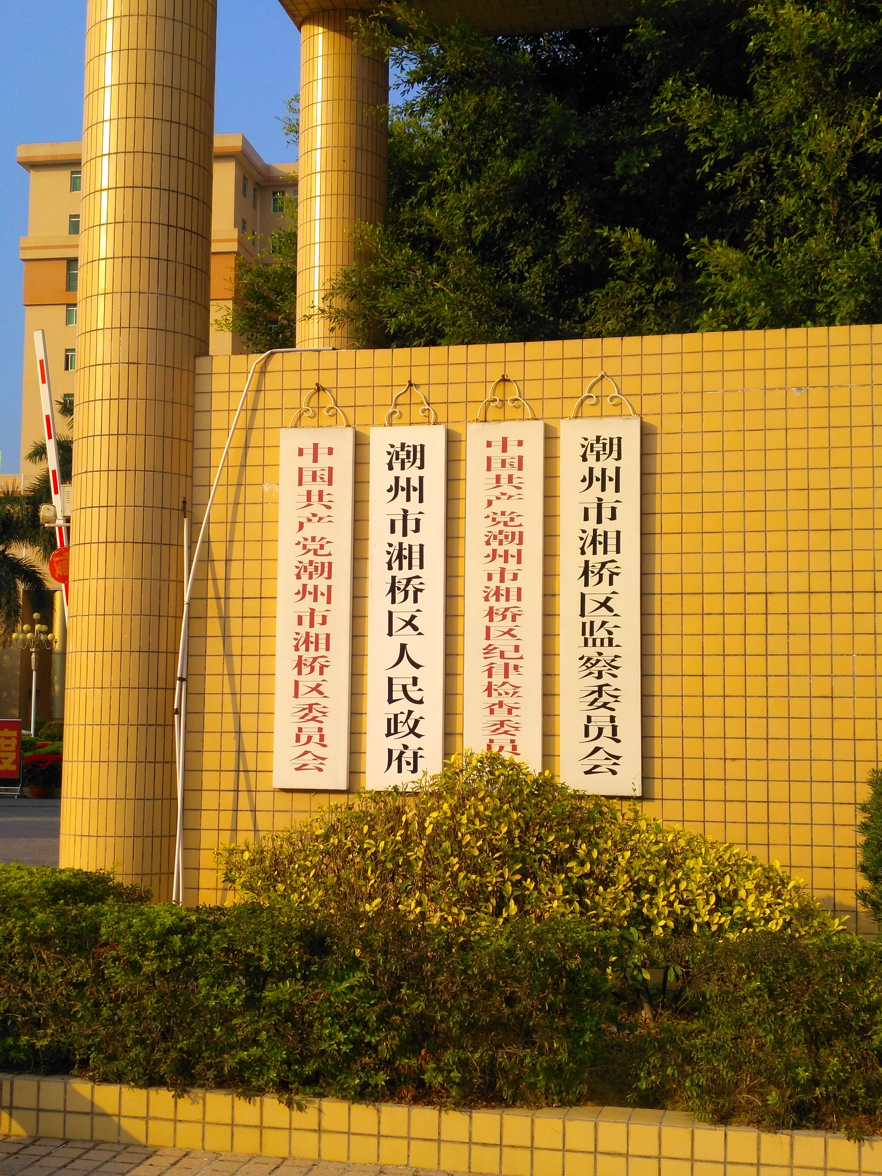 Gate of the People's Government of Xiangqiao District, Chaozhou City.